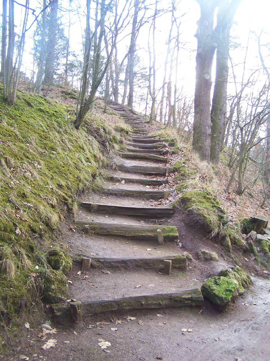 A staircase in Kartausgarten park.